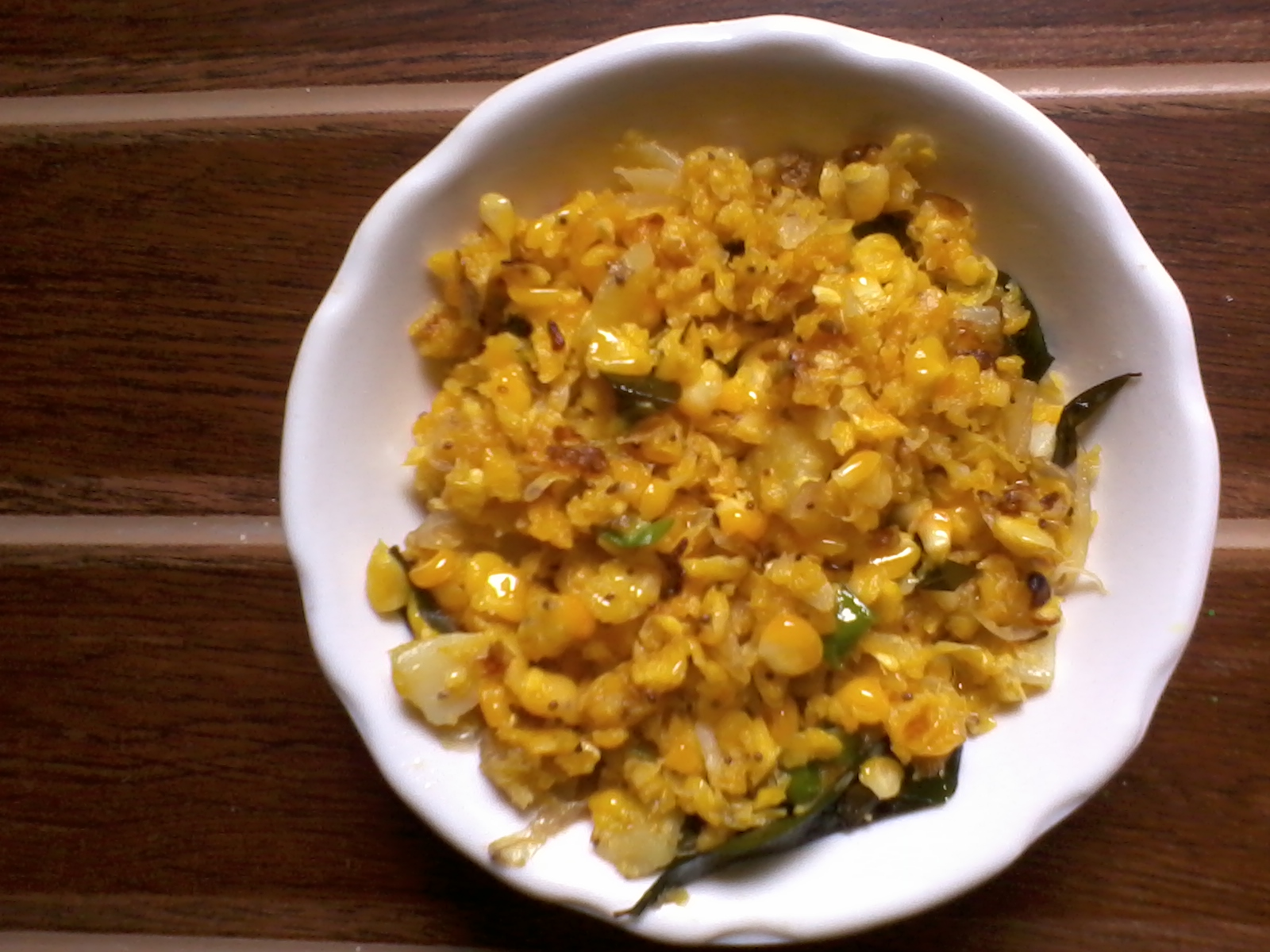 A pure south Indian dish with northern touch.